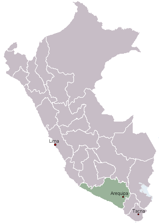 Location of Aircraft accident Faucett Flight 251 in Peru (Map)